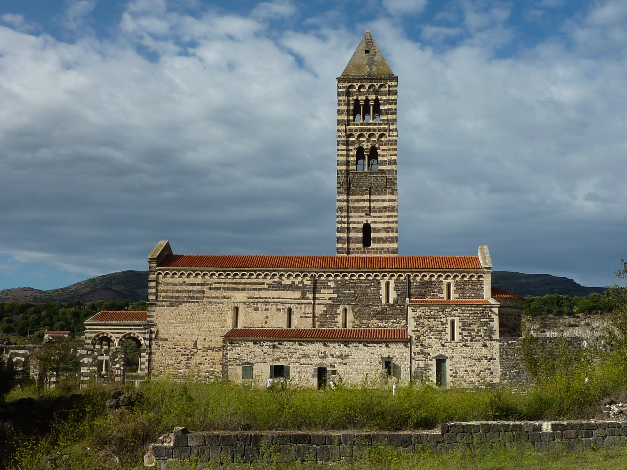 View of the church